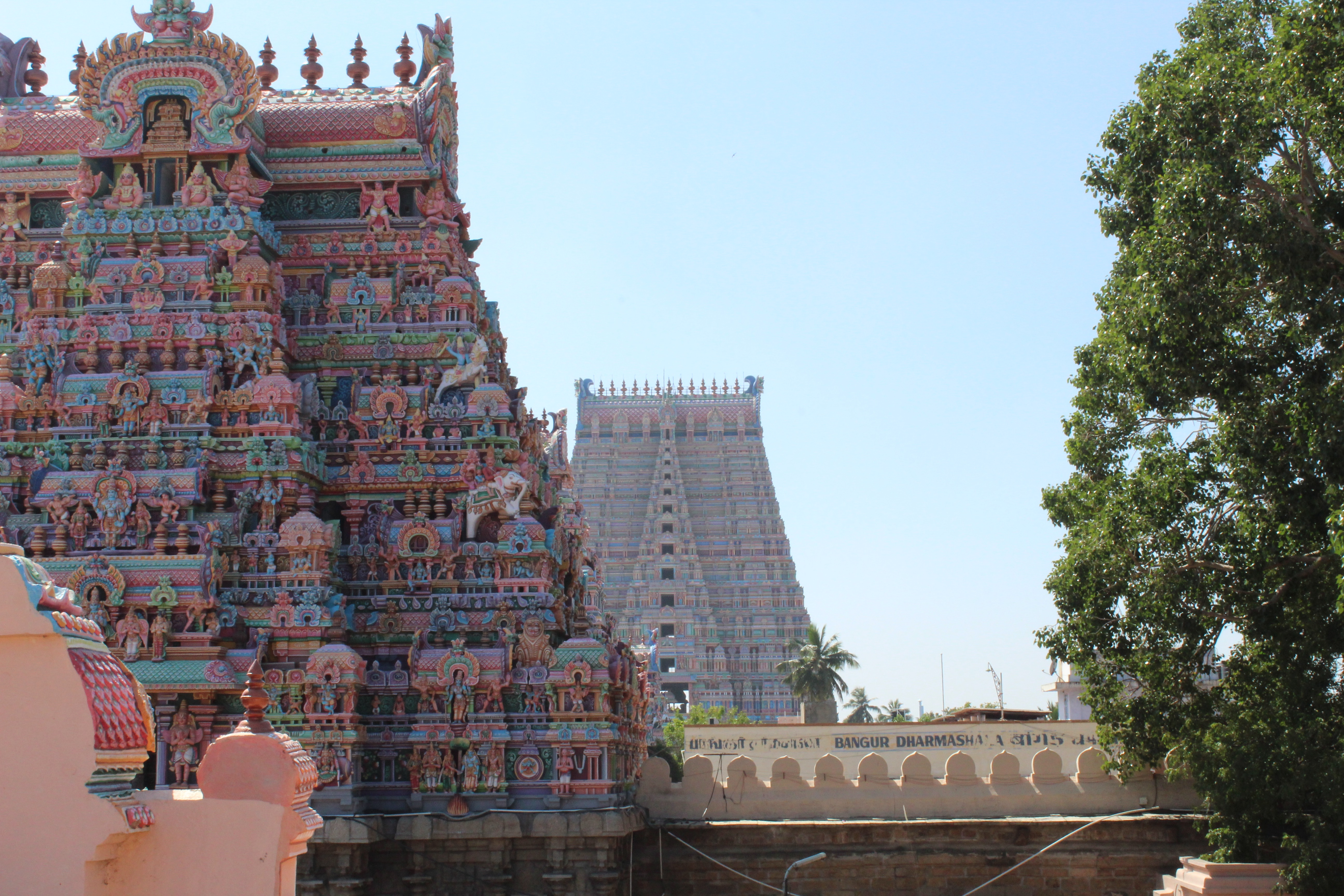 Ranganathaswamy Temple, Srirangam Gopuram view